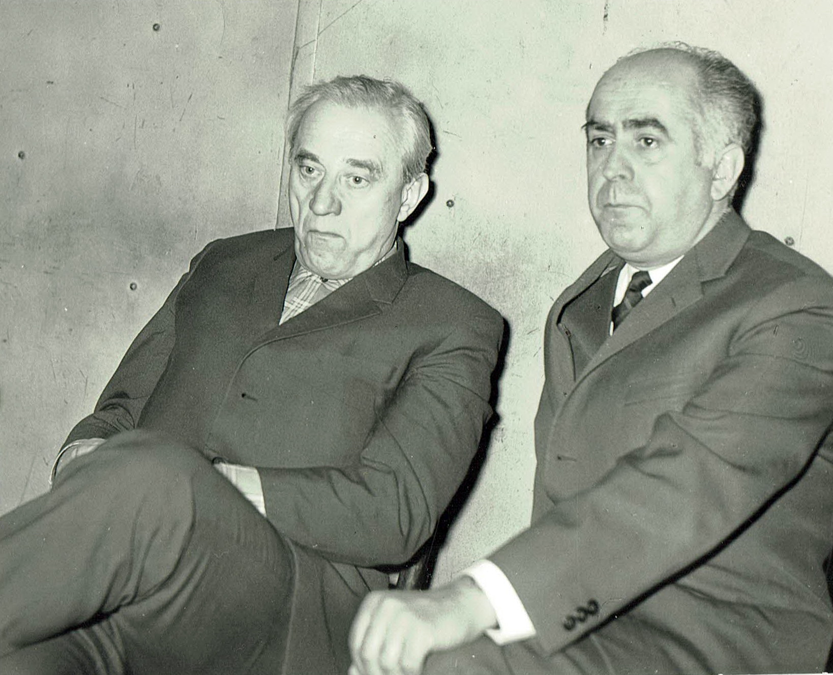 Opera Directors Boris Pokrovskiiy (left) and Emil Boshnakov (right) in Sofia, 1980